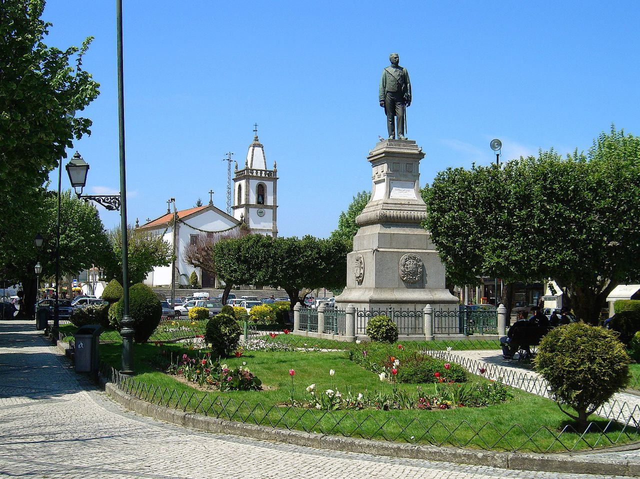 See where this picture was taken. [?]